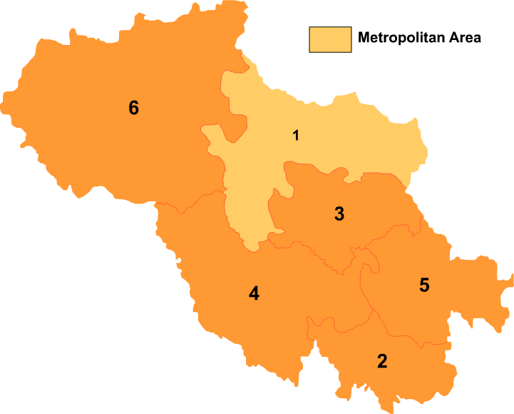 Map of Golog Tibetan Autonomous Prefecture — in Qinghai province, southern China.